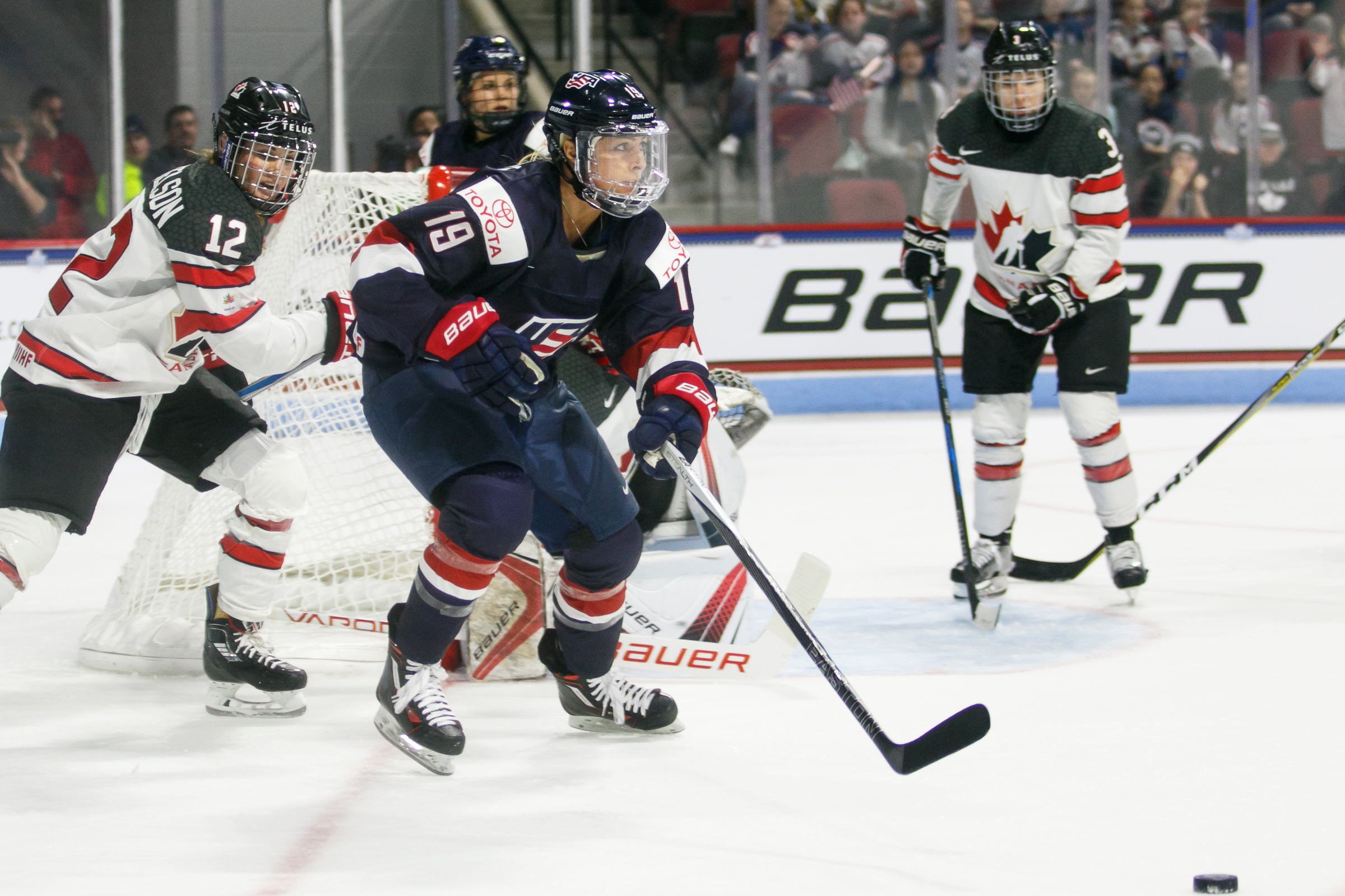 Gigi Marvin playing for Team USA in 2017